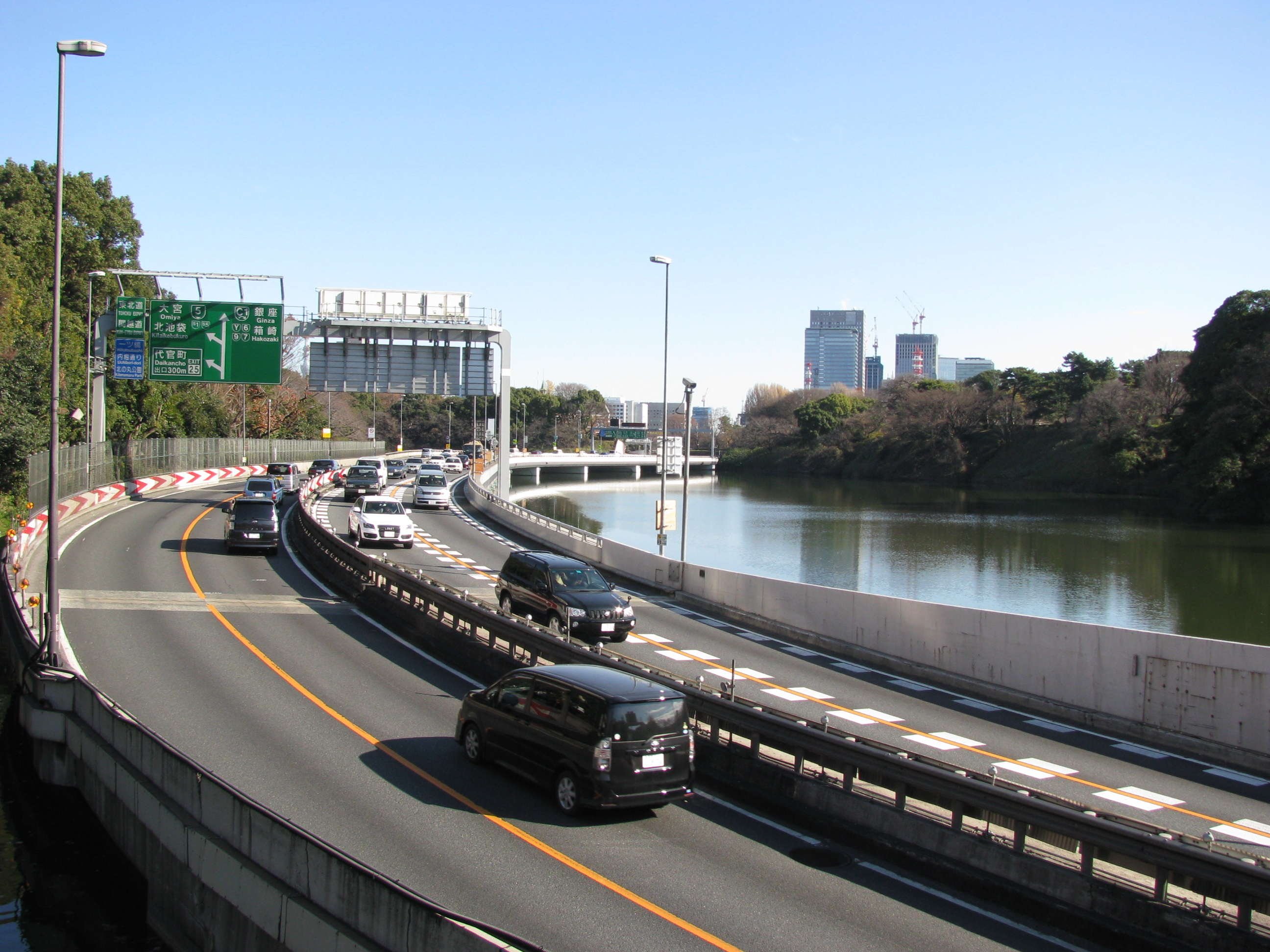 The Shuto kōsoku-doro Route C1 and Chidori-ga-fuchi. This location is Kitanomaru Kōen in Chiyoda, Tokyo, Japan.